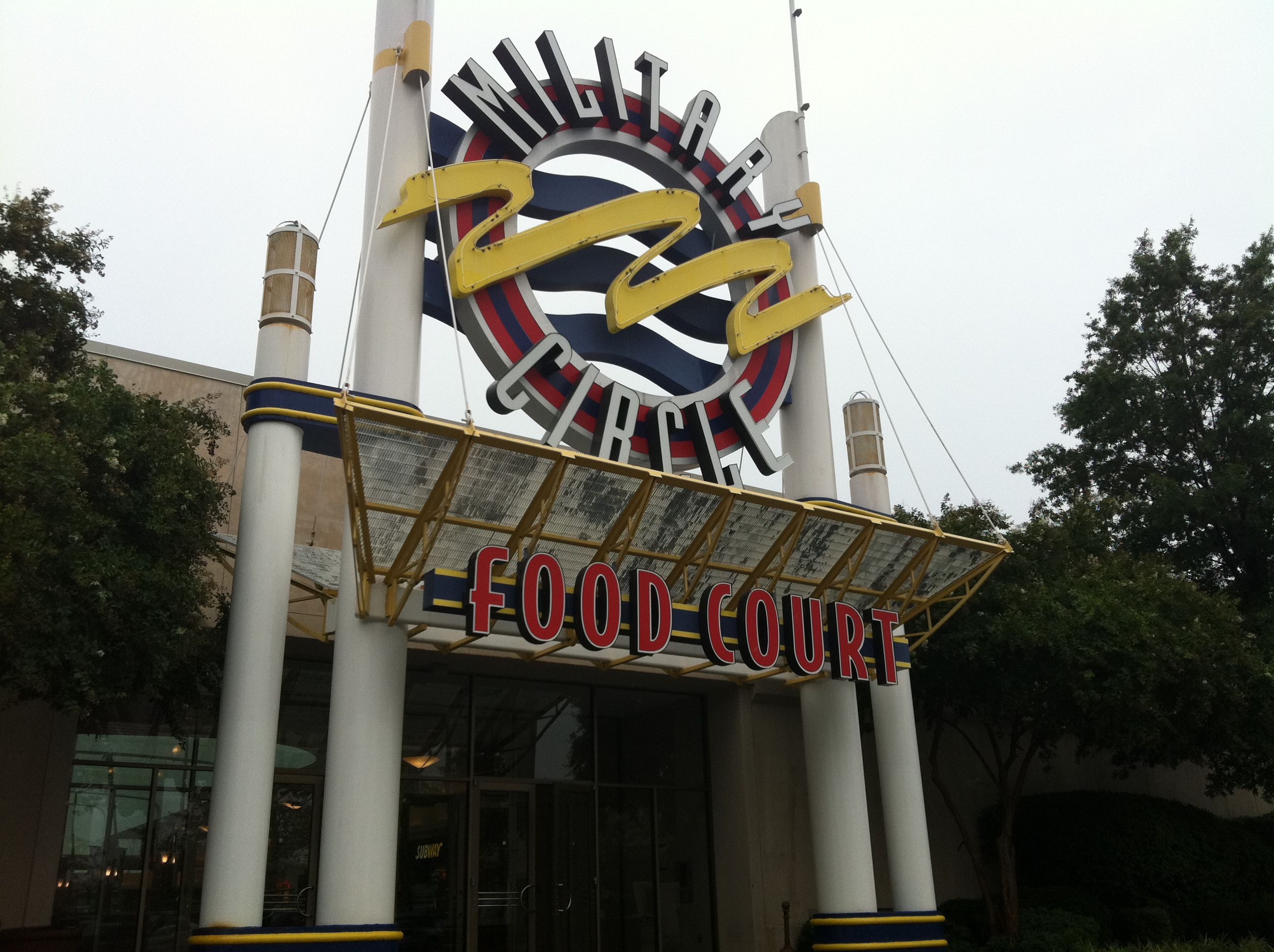 Food Court - Military Circle Mall, Norfolk, Virignia